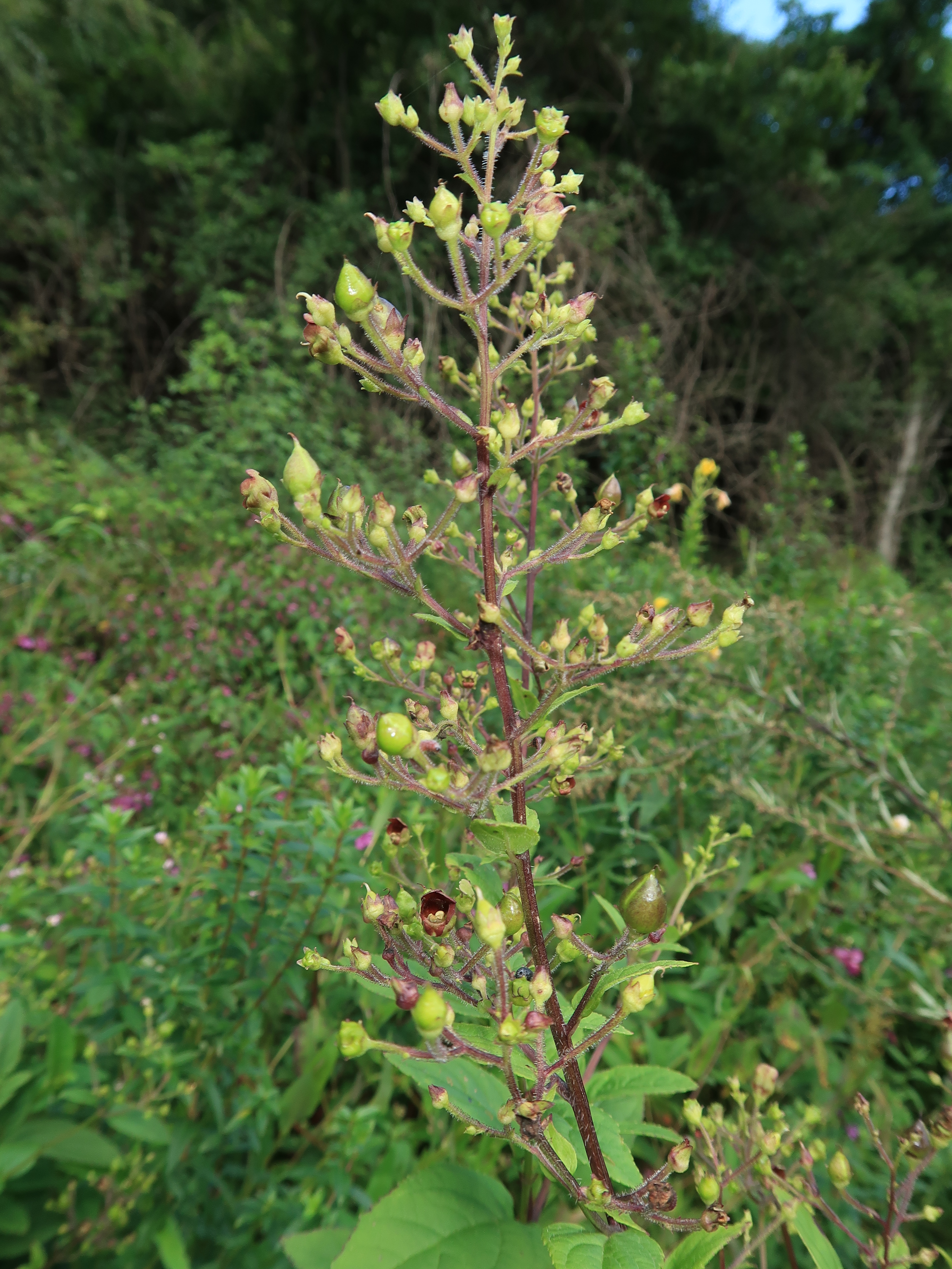 Scrophularia kakudensis, Hama-dori area, Fukushima pref., Japan